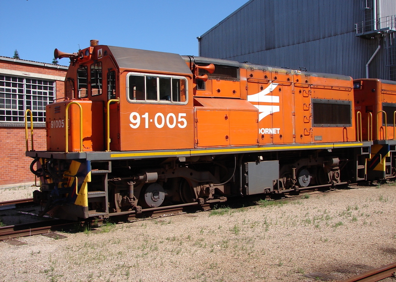 South African Class 91-000 91-005 Builder's Number: GE 38607 Type: GE UM6B Location: Humewood Road, Port Elizabeth, Eastern Cape